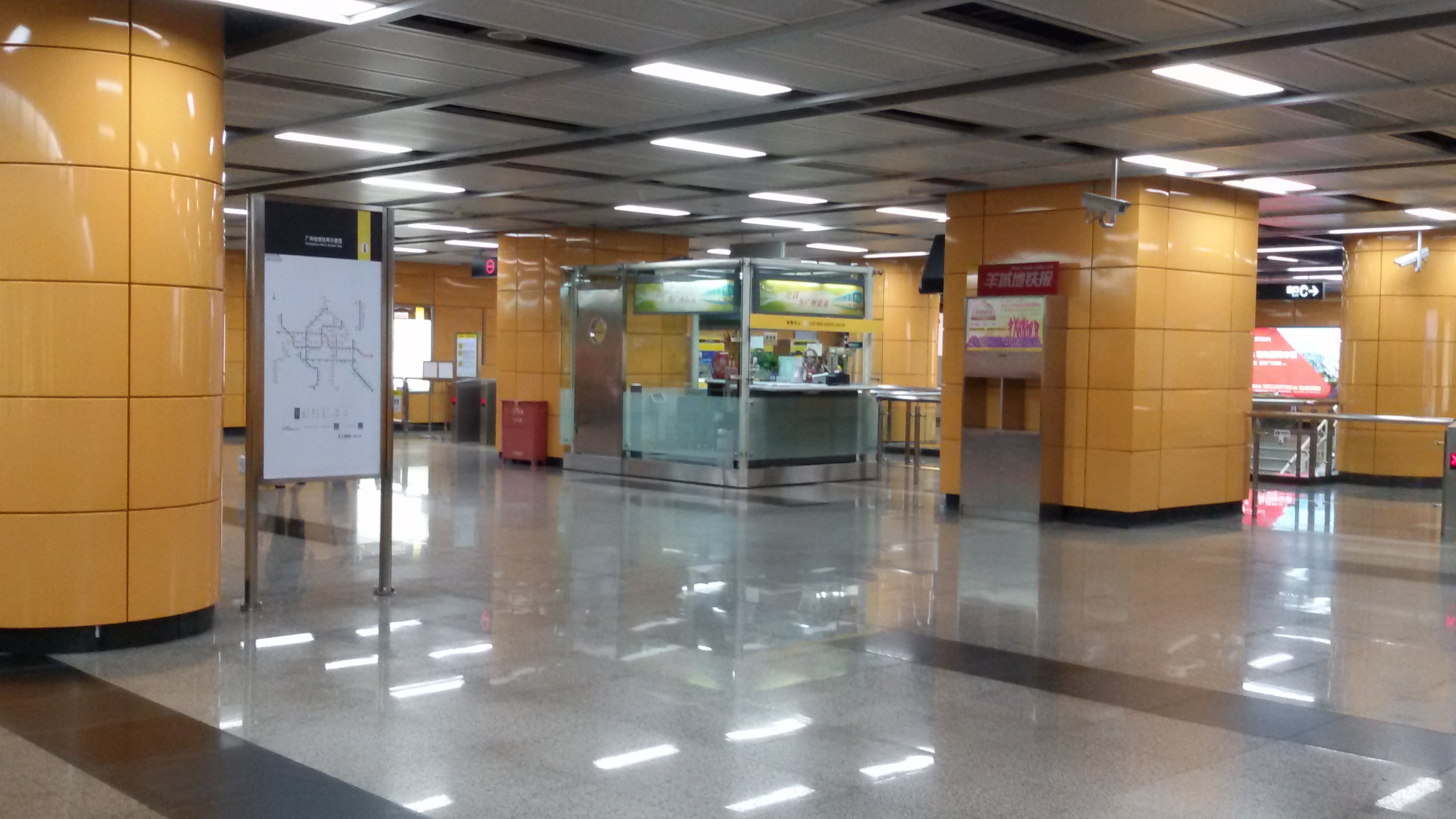 Station Concourse for Modiesha Station in Guangzhou Metro.